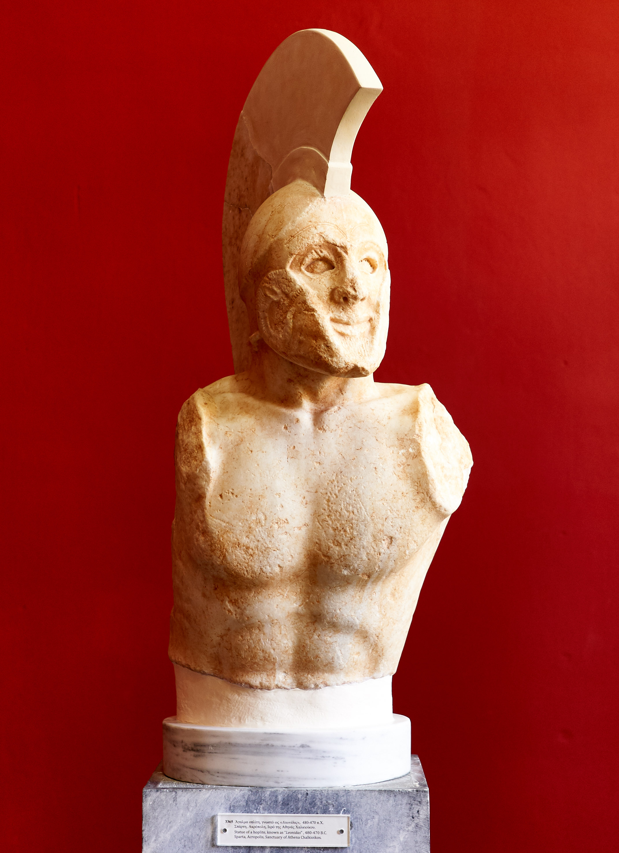 Statue of a hoplite, known as “Leonidas”, 480-470 B.C. Sparta, Acropolis, Sanctuary of Athena Chalkioikos. Accession number: 3365. Archaeological Museum of Sparta. Sparta, Greece. Text: Museum inscription.